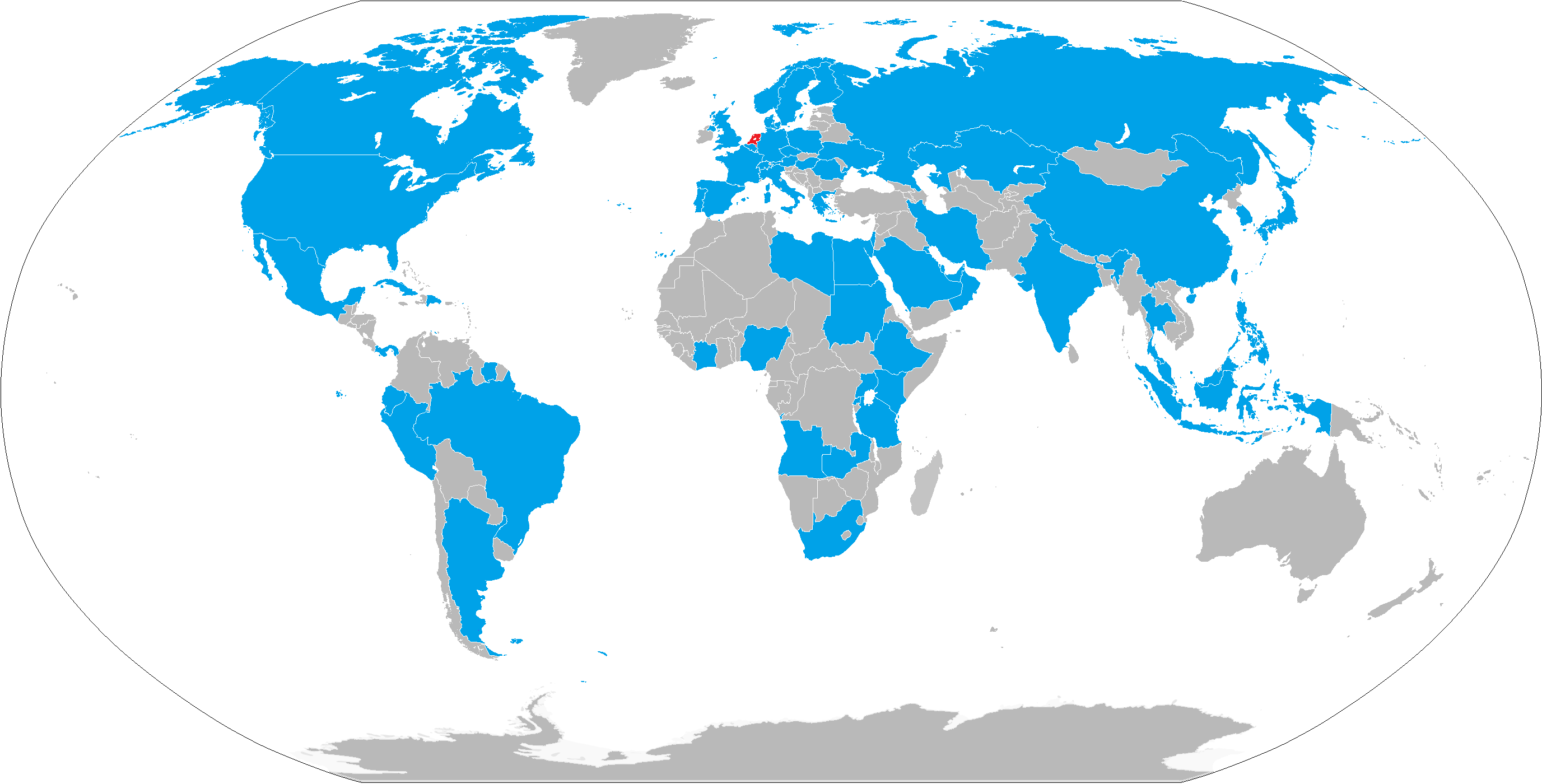 KLM destinations